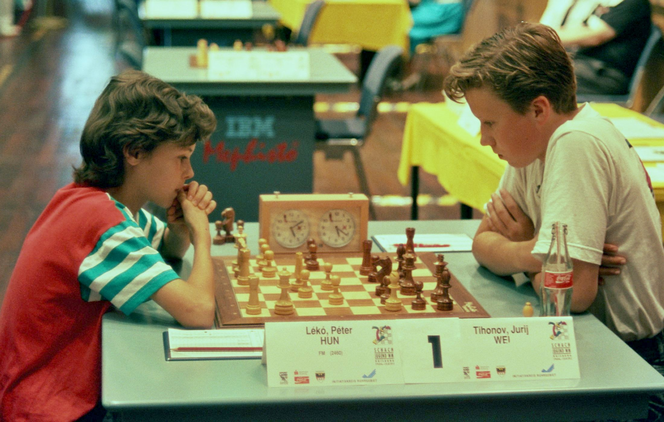 Peter Leko and Juij Tihonov (Champion under 14), World Youth Chess Championship 1992 at Duisburg, Photographer Gerhard Hund.